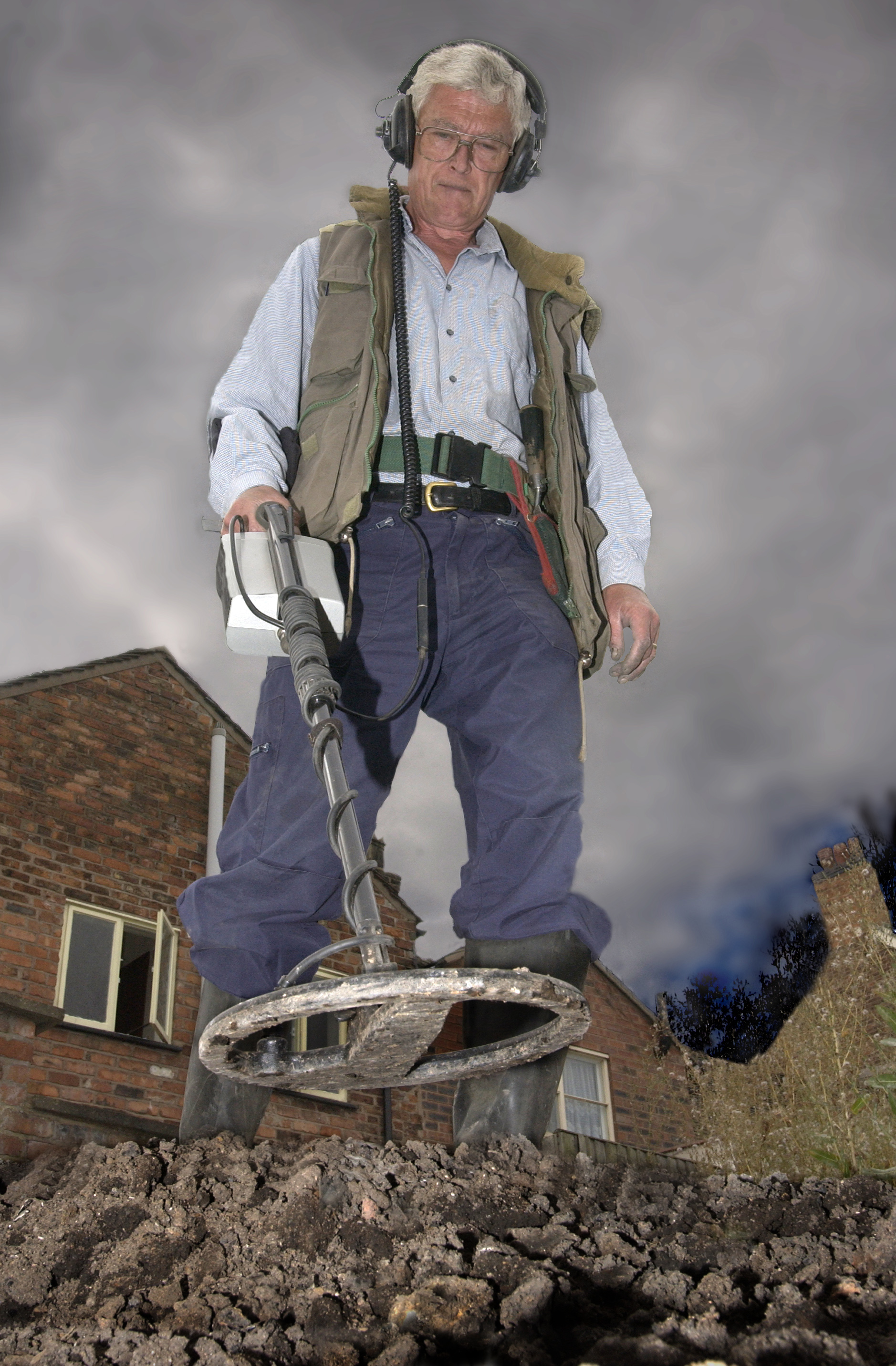 Metal detecting in progress on a Time Team dig This was added from the site called under the name portableantiquities. See source for details.